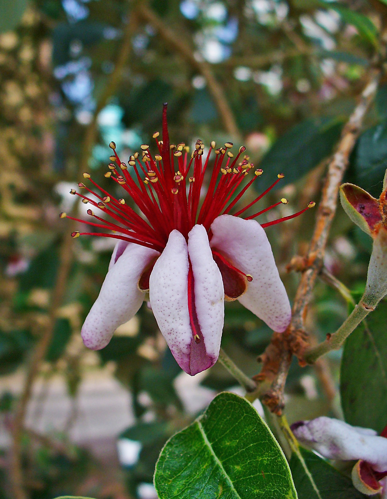 Acca sellowiana, Myrtaceae, Feijoa, Pineapple Guava, Guavasteen, flower. Botanical Garden Karlsruhe, Germany